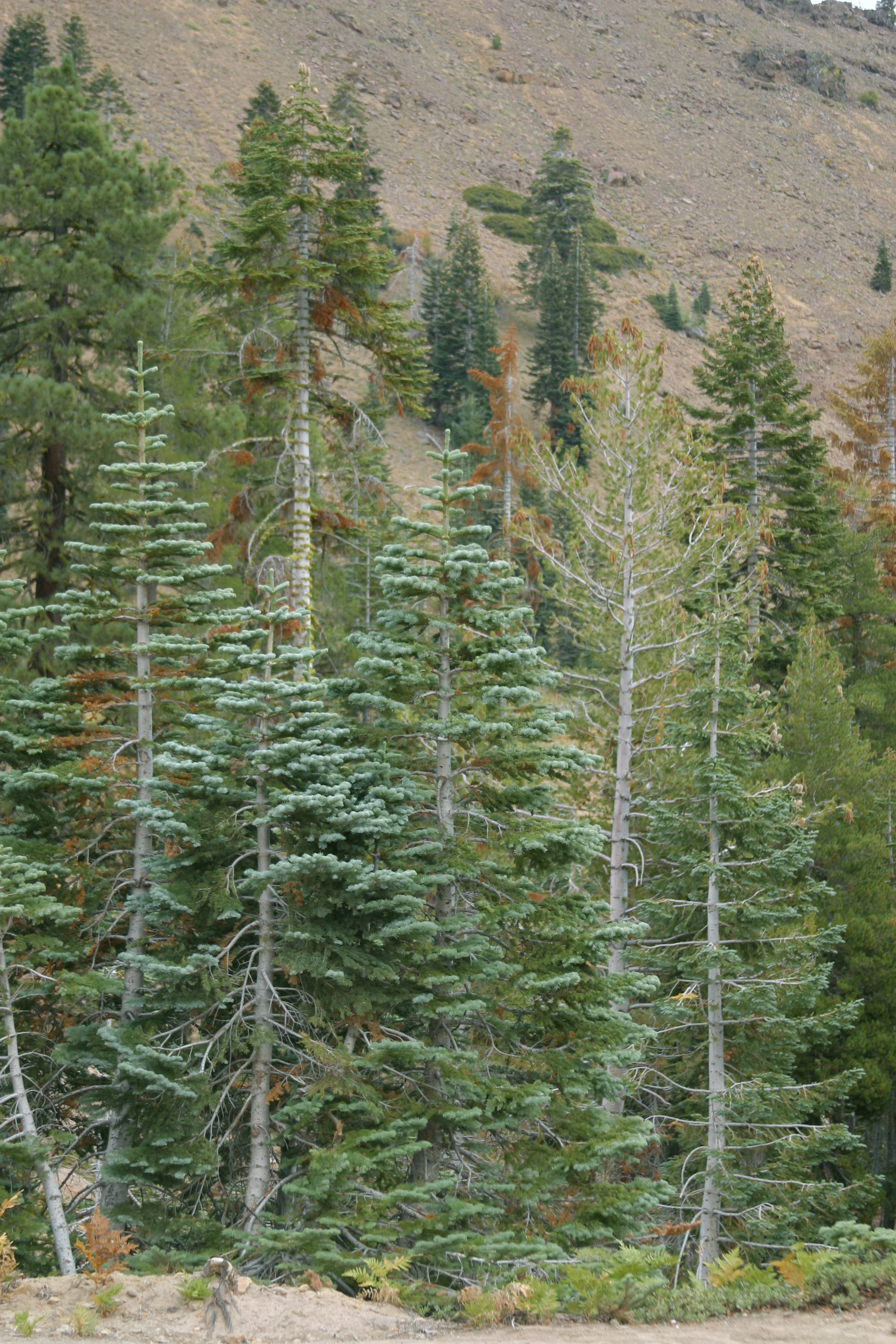 Mixed Shasta coniferous forest with Abies magnifica, Pinus jeffreyi, Pinus monticola. Sulphur Works, Lassen Volcanic National Park, Shasta Cascades, California, USA.